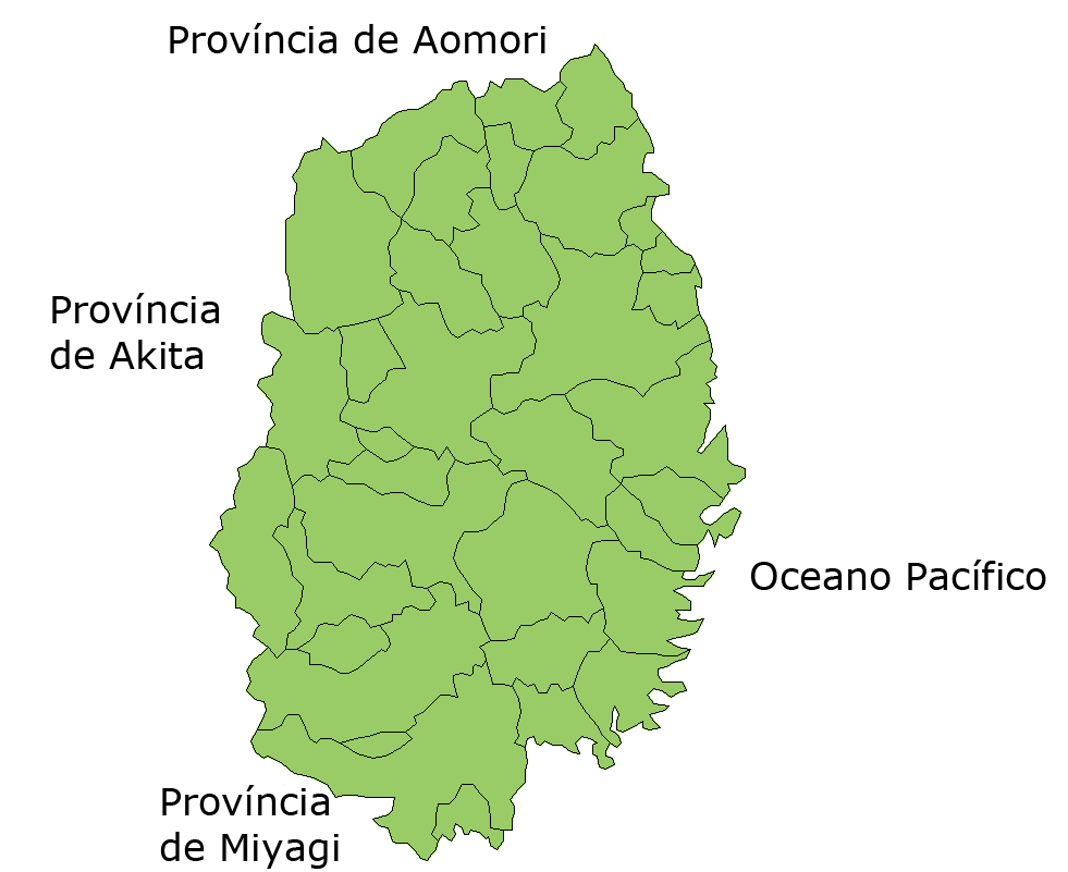 Own modification from original: Image:IwateMapCurrent.png, using Adobe Photoshop. Map with legends in Portuguese.